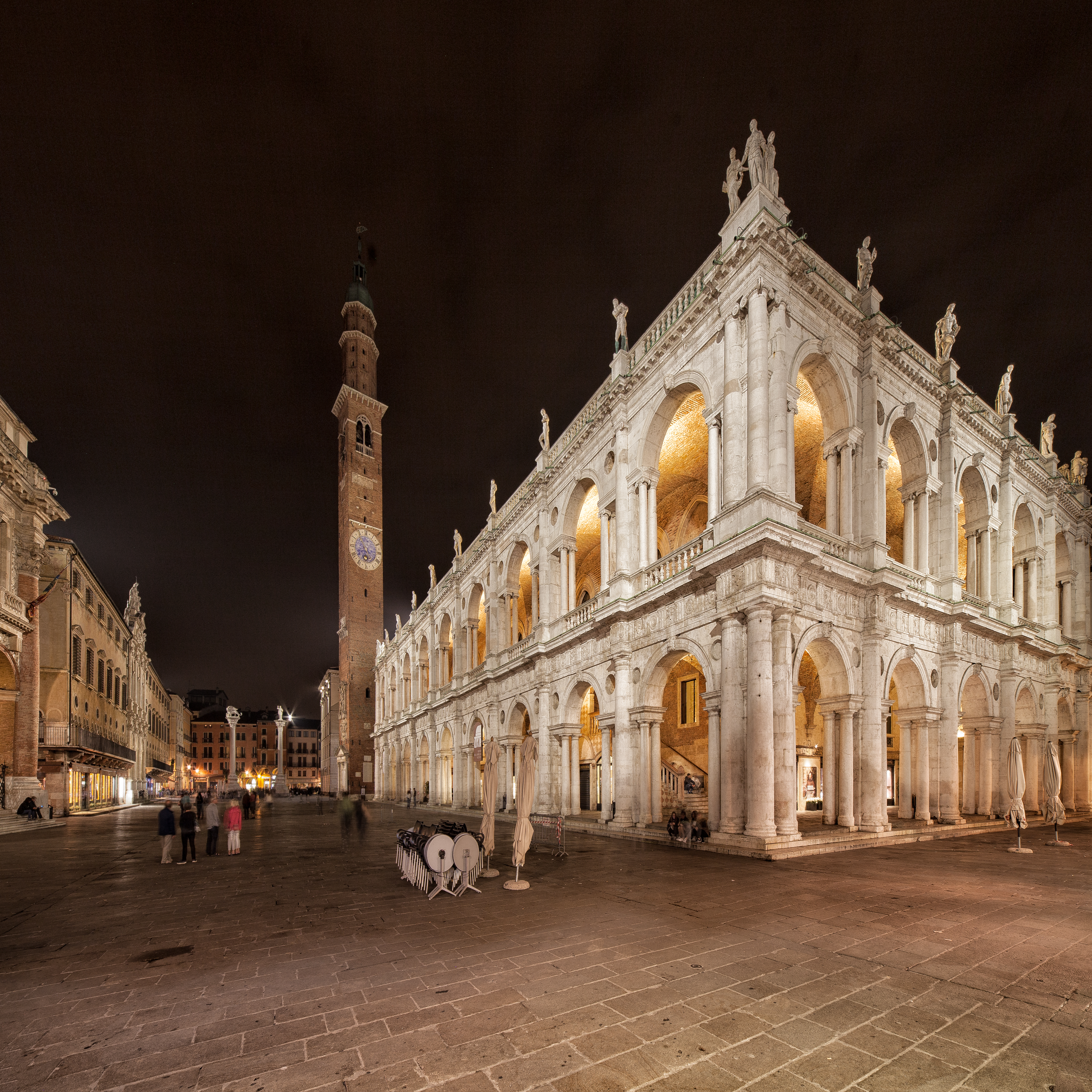 View of the Palladian Basilica from the Piazza dei Signori This is a photo of a monument which is part of cultural heritage of Italy.